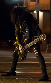 Black Veil Brides Video shoot